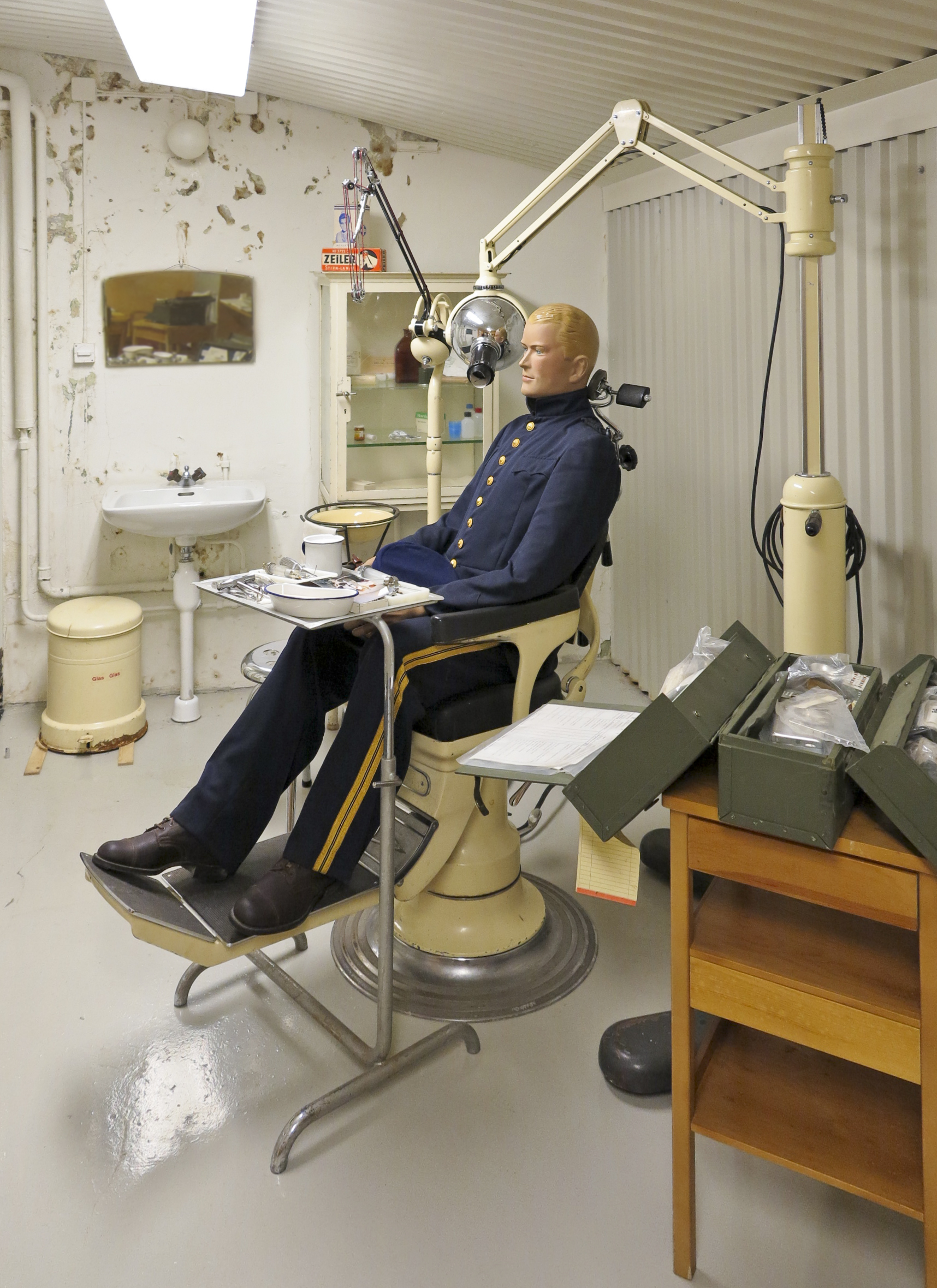 Rödbergsfortet, Boden. Dentist.